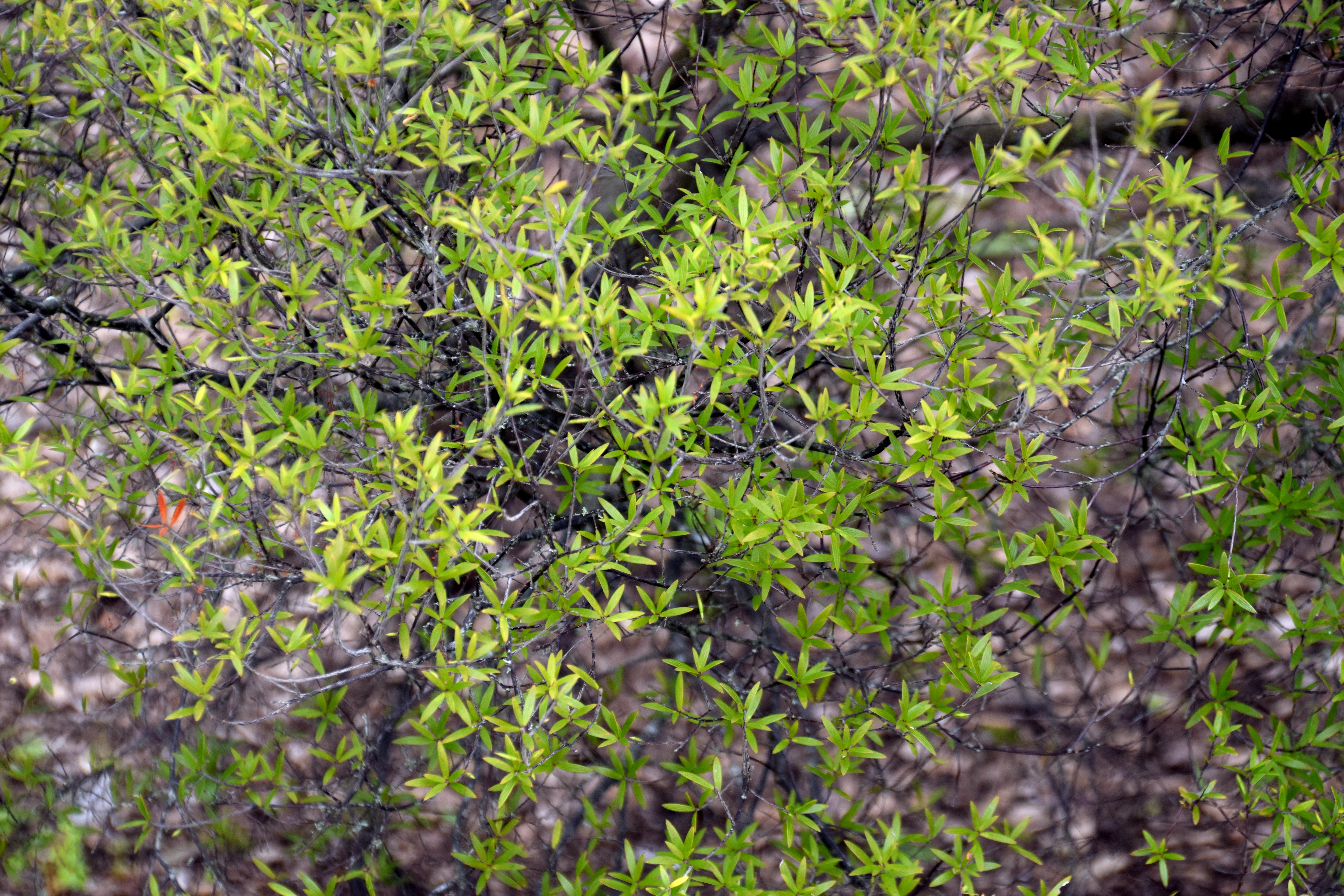 Leucopogon fasciculatus in Auckland Botanic Gardens, Manurewa, South Auckland, New Zealand